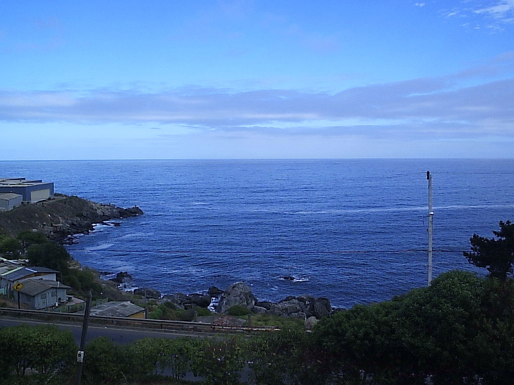 Mar de Chile - Sea of Chile